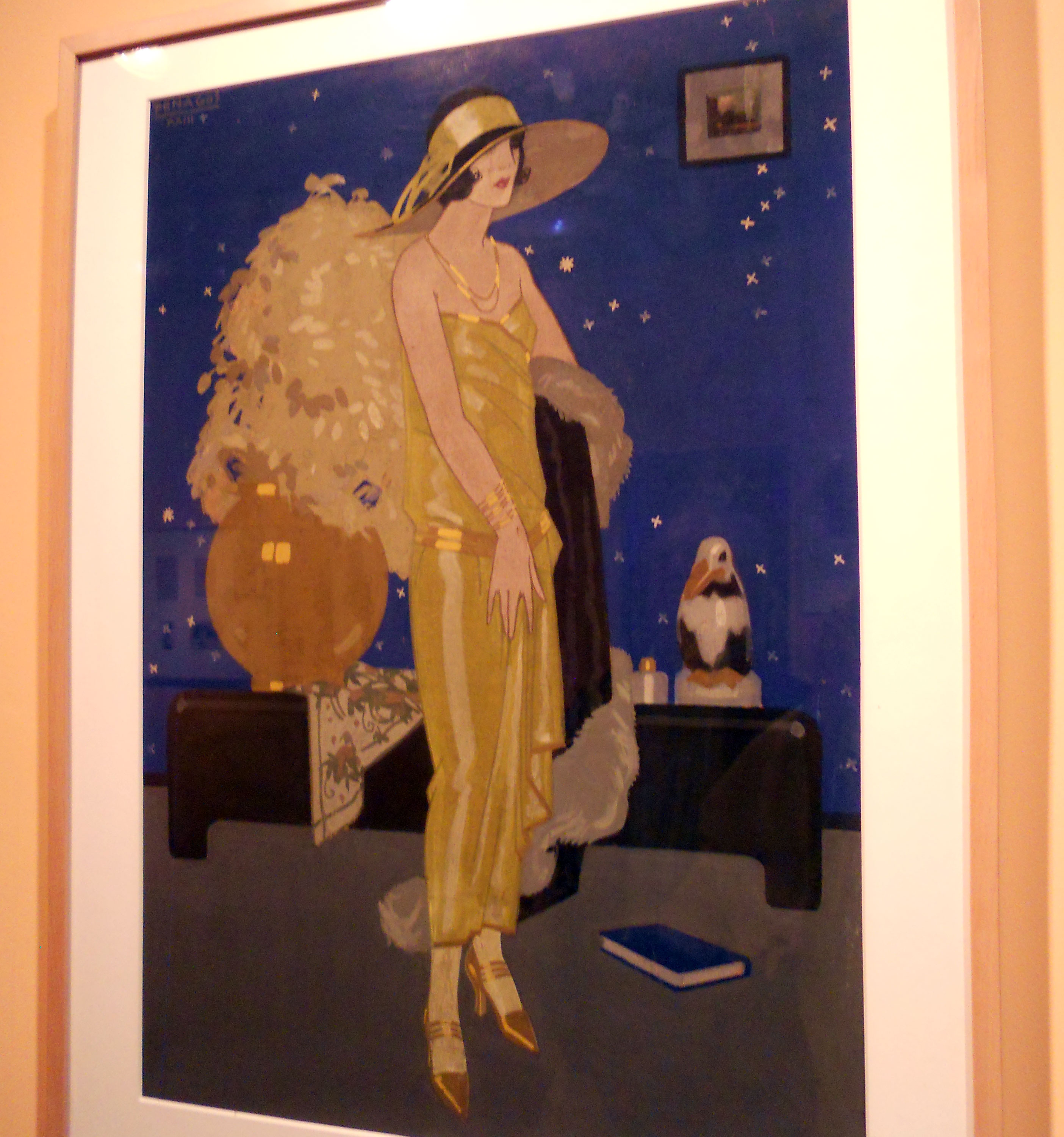 Rafael de Penagos (1889-1954), Spanish painter and illustrator. Photos of the work of Rafael de Penagos from the exhibition of his drawings called “Los años del Charlestón.” Colecciones MAPFRE. La Laguna, Tenerife. May 8, 2014-July 11, 2014. Fotos de las obras de Rafael de Penagos de la exhibición de sus dibujos llamada “Los años del Charlestón.” Colecciones MAPFRE. La Laguna, Tenerife. Del 8 de mayo al 11 de julio de 2014.